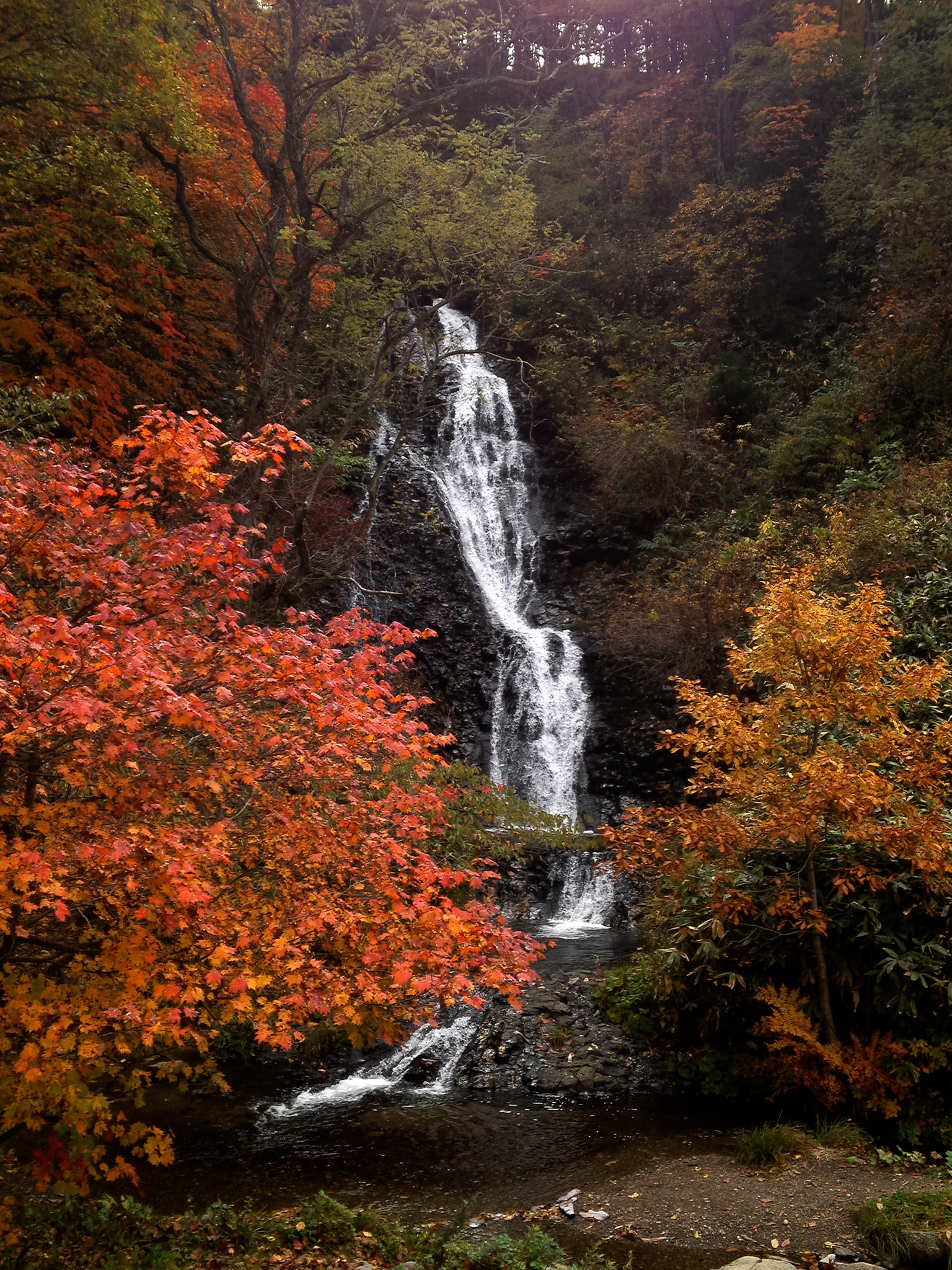 Nanataki waterfalls and red leaves in Kosaka Town, Akita Prefecture, Japan